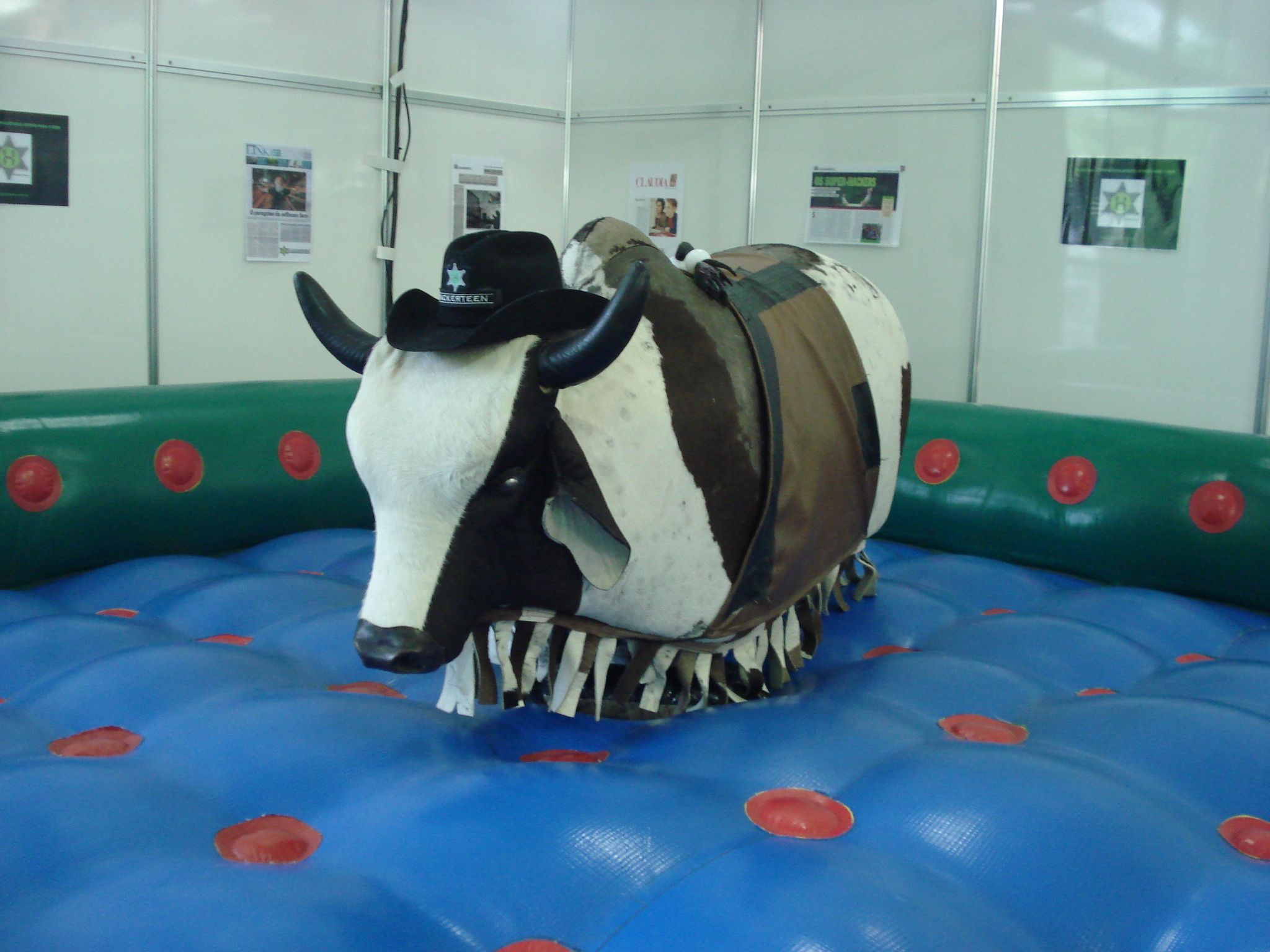 Rodeo machine in a sportclub. From Flickr [1]